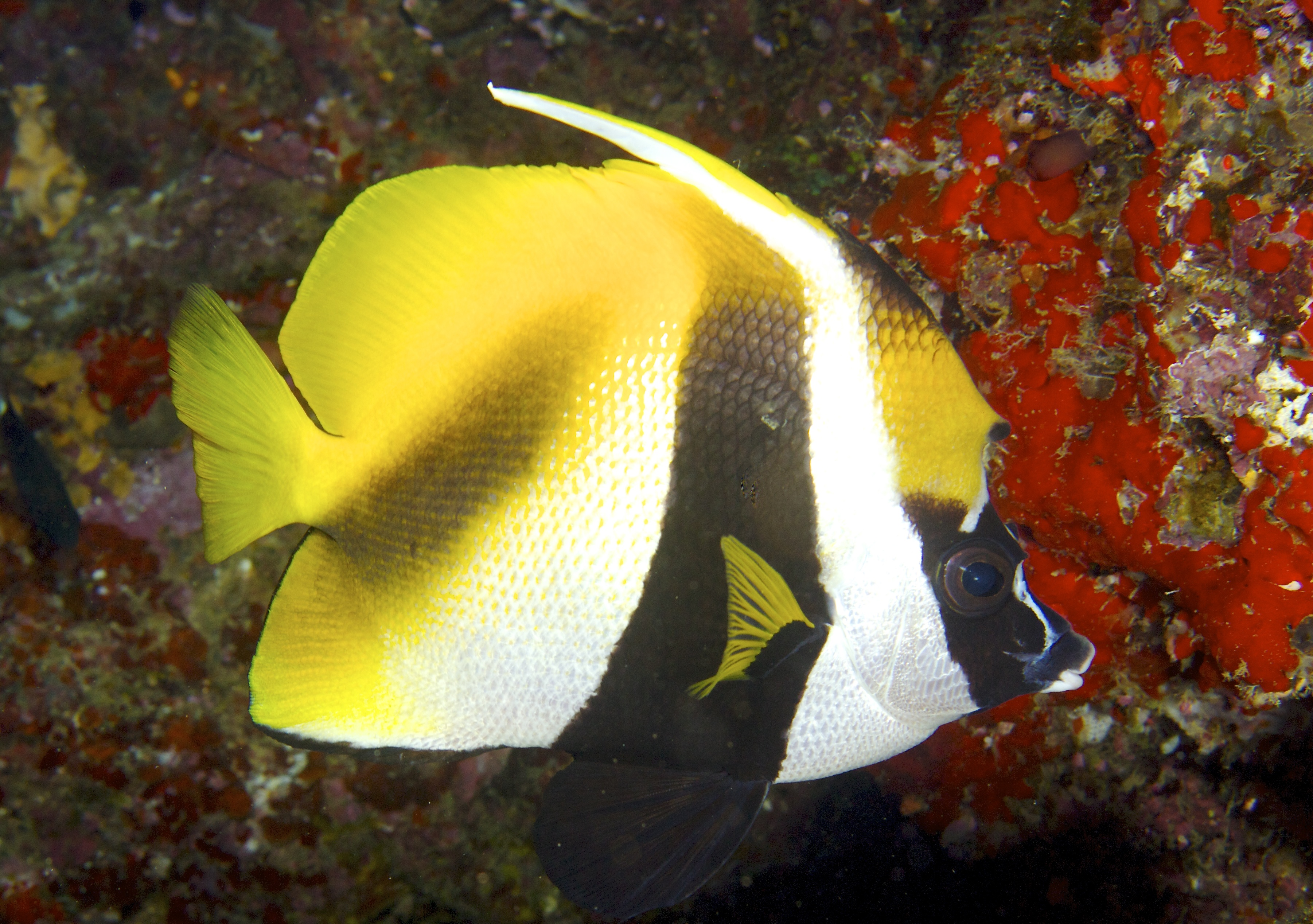 Heniochus monoceros Masked Bannerfish